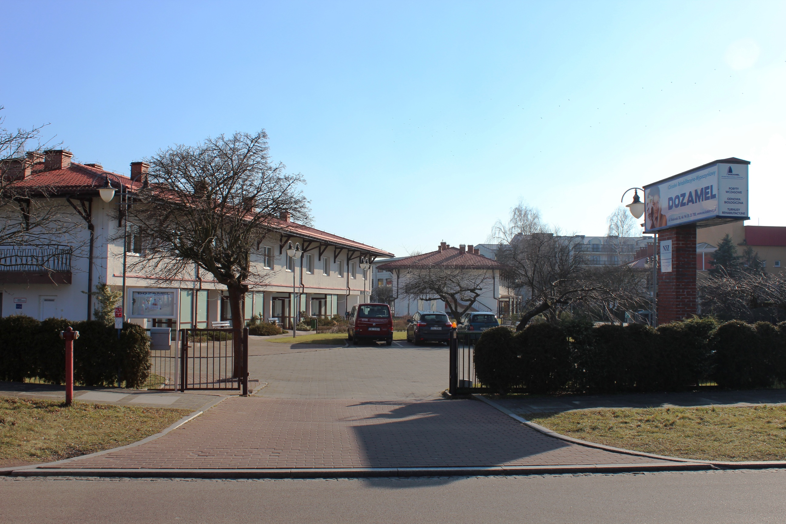 Dozamel Sanatorium in Kołobrzeg